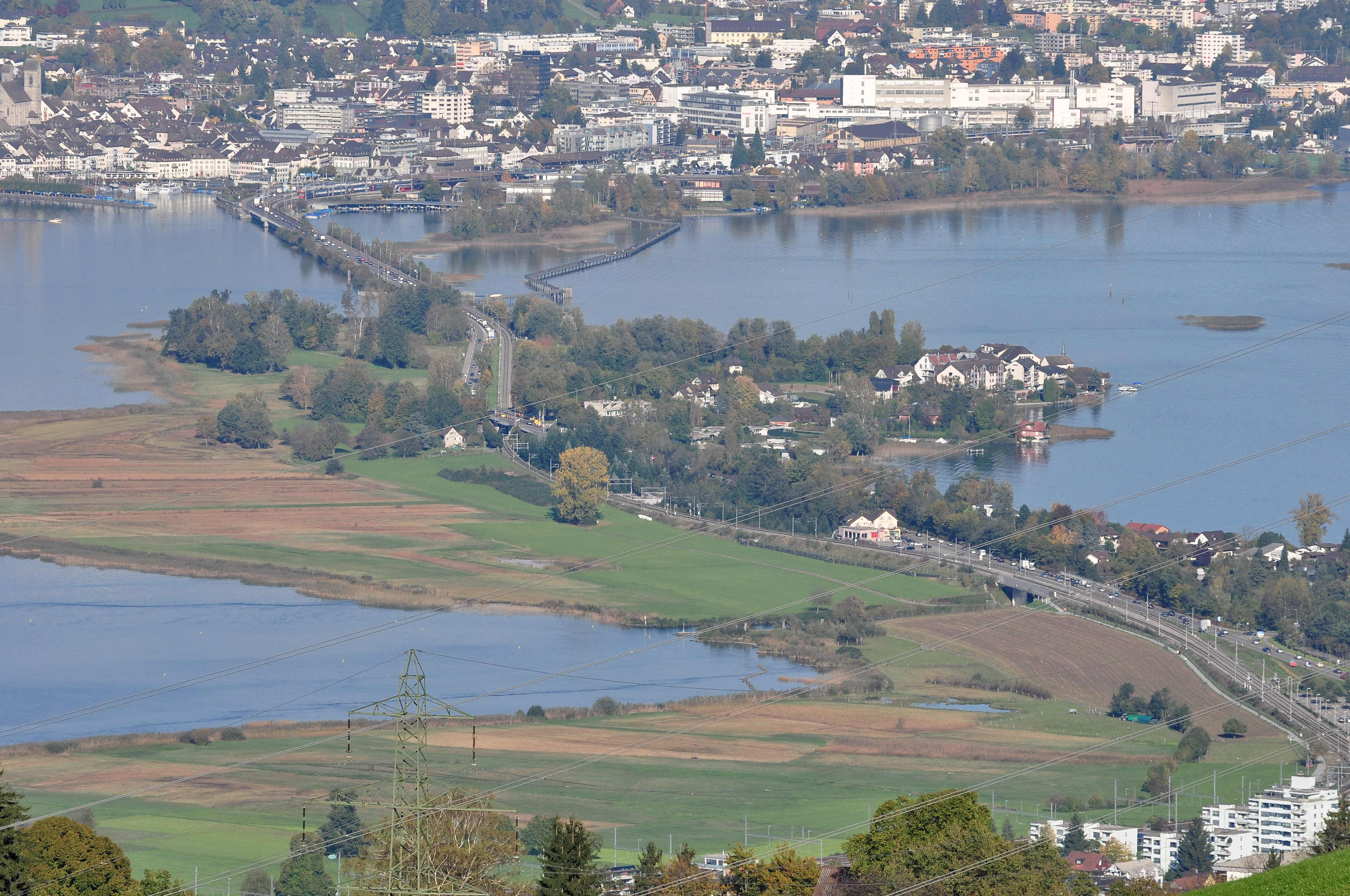 View from Feusisberg towards Rapperswil-Jona – Kempraten and Rapperswil to the left, Jona to the right. Freienbach, the Frauenwinkel protected area, the Hurden ship canal|Hurden ship canal and Hurden village are in the foreground, with the Seedamm and Holzbrücke behind them, Zürichsee and Lützelau island to the left, Obersee to the right.